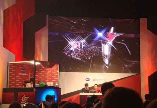 Starleague Trophy